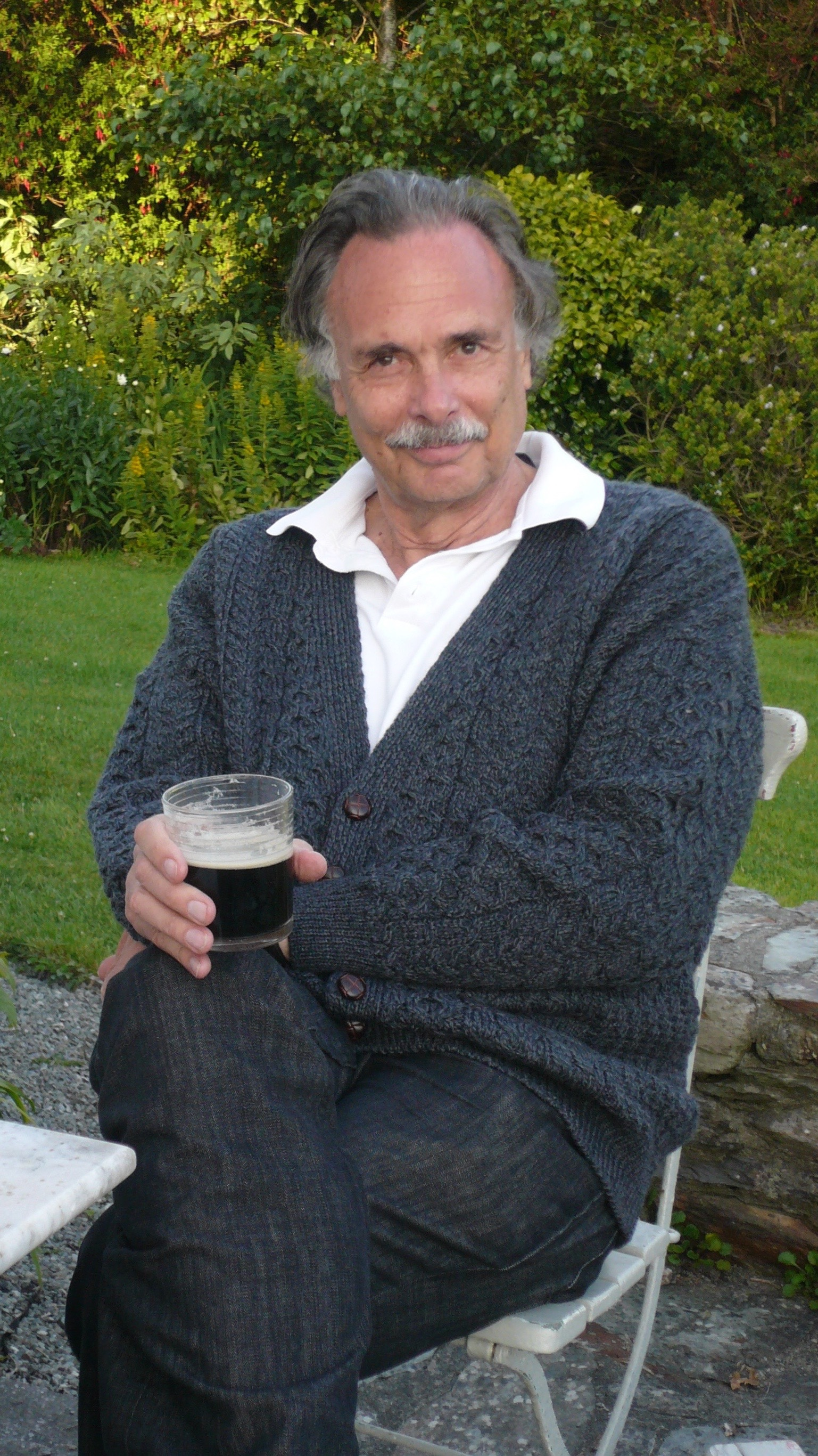 Arthur Kopit in Ireland, July, 2011